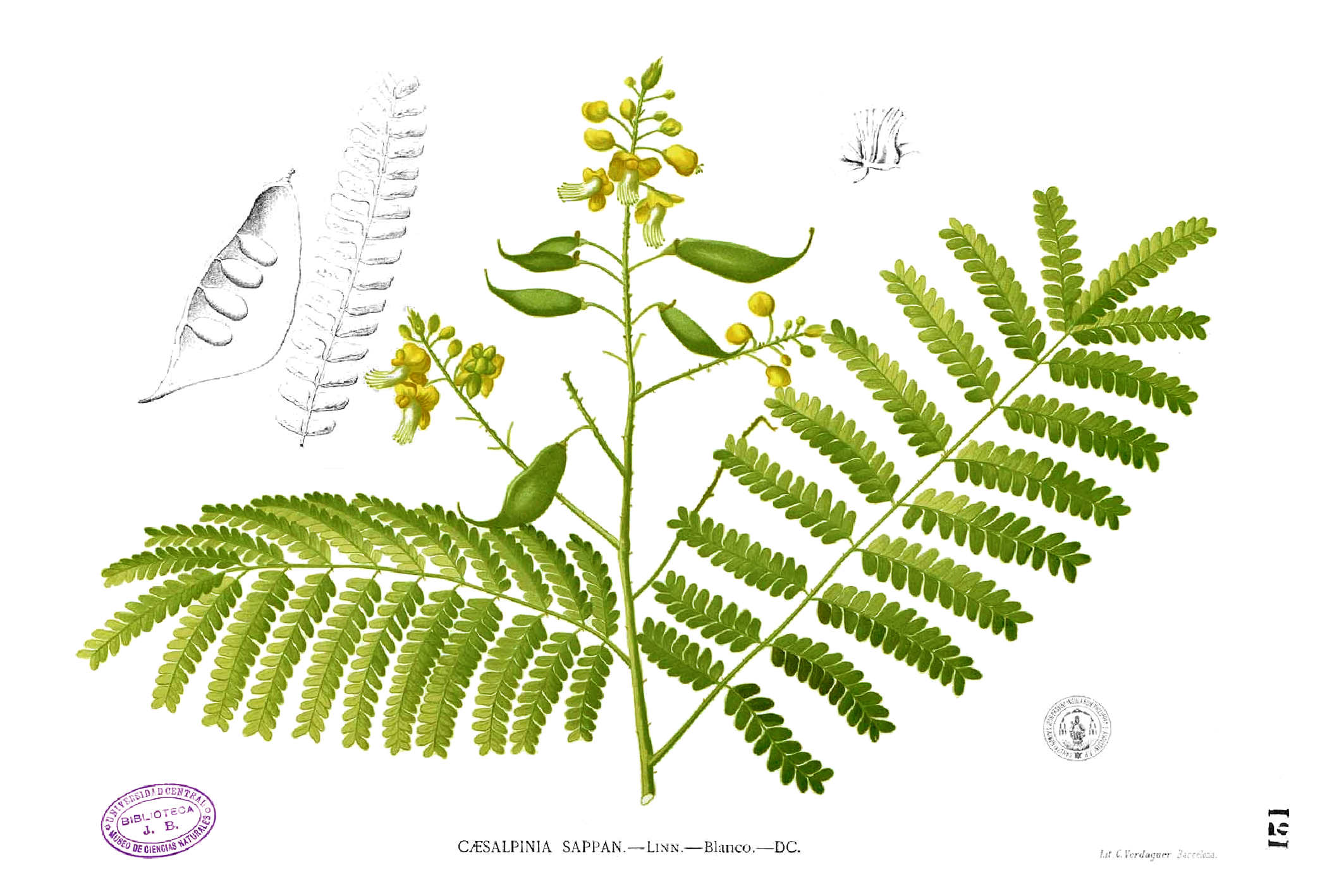 Plate from book